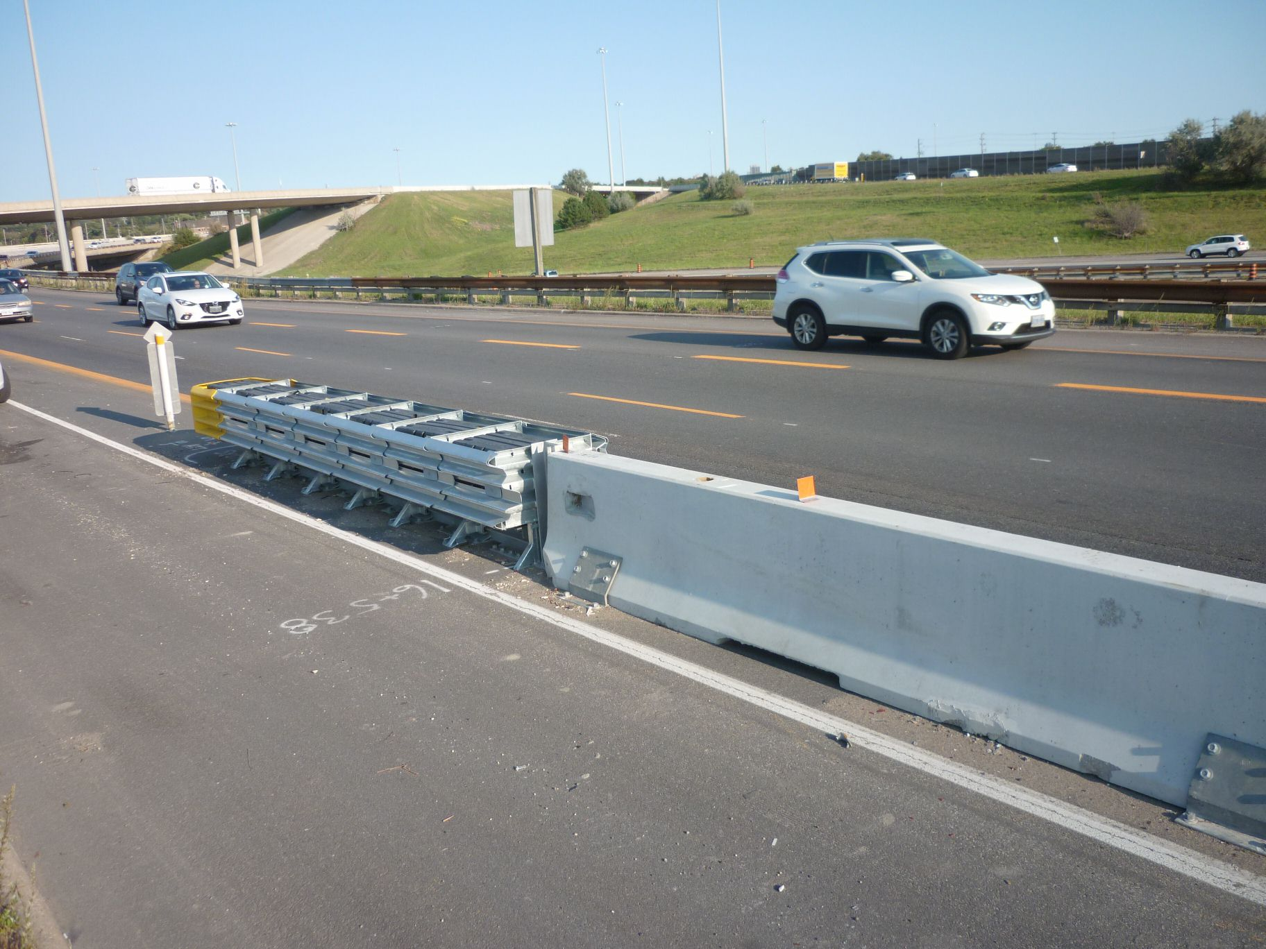 Energy attenuator at TCB.